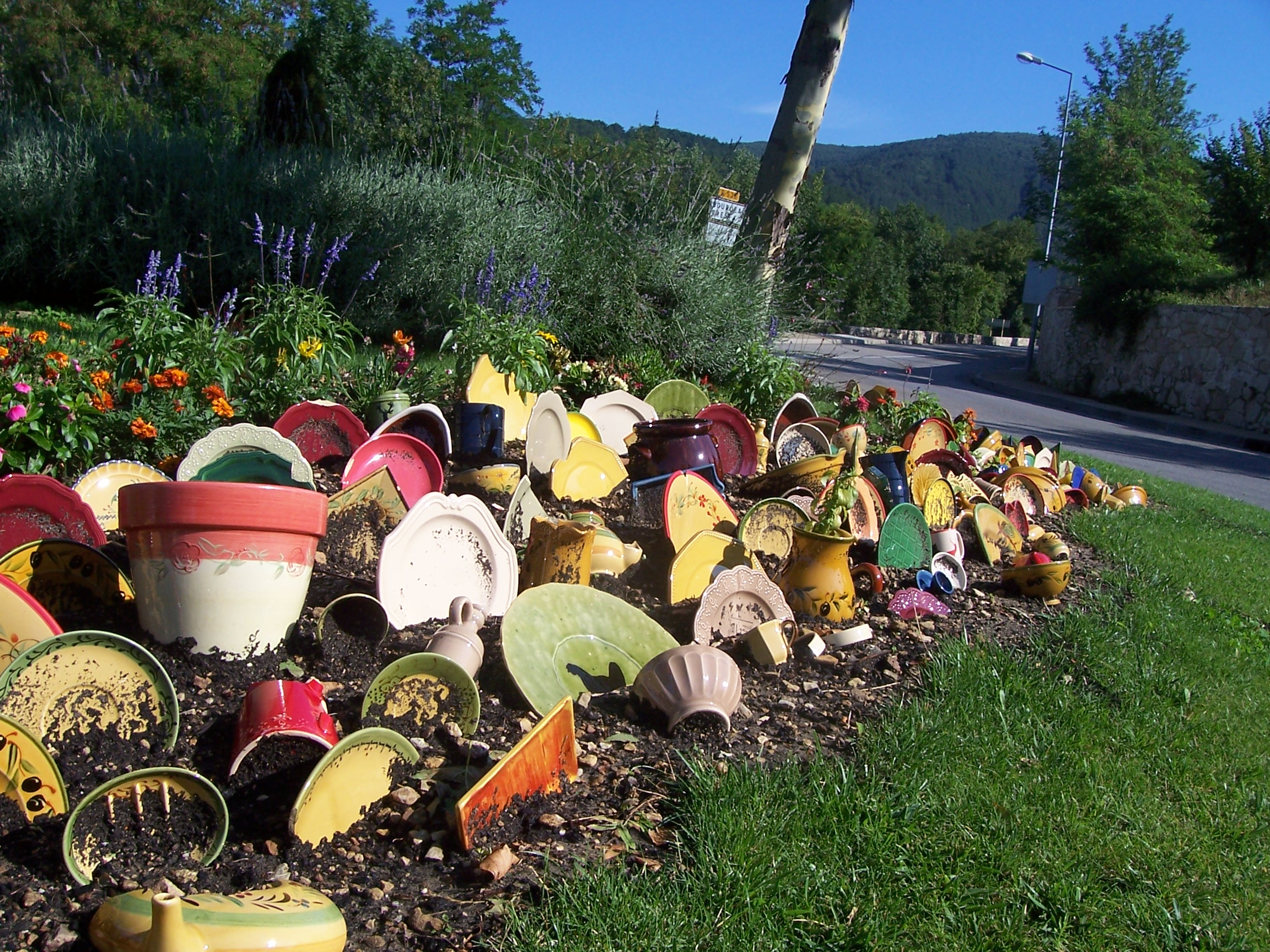 Central island of a roundabout in the town of Dieulefit (France) artistically decorated with numerous potteries